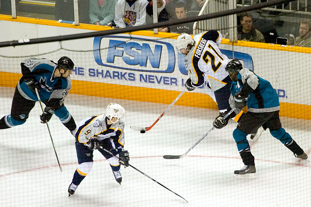 Nashville Predators at San Jose Sharks 2/28/2007